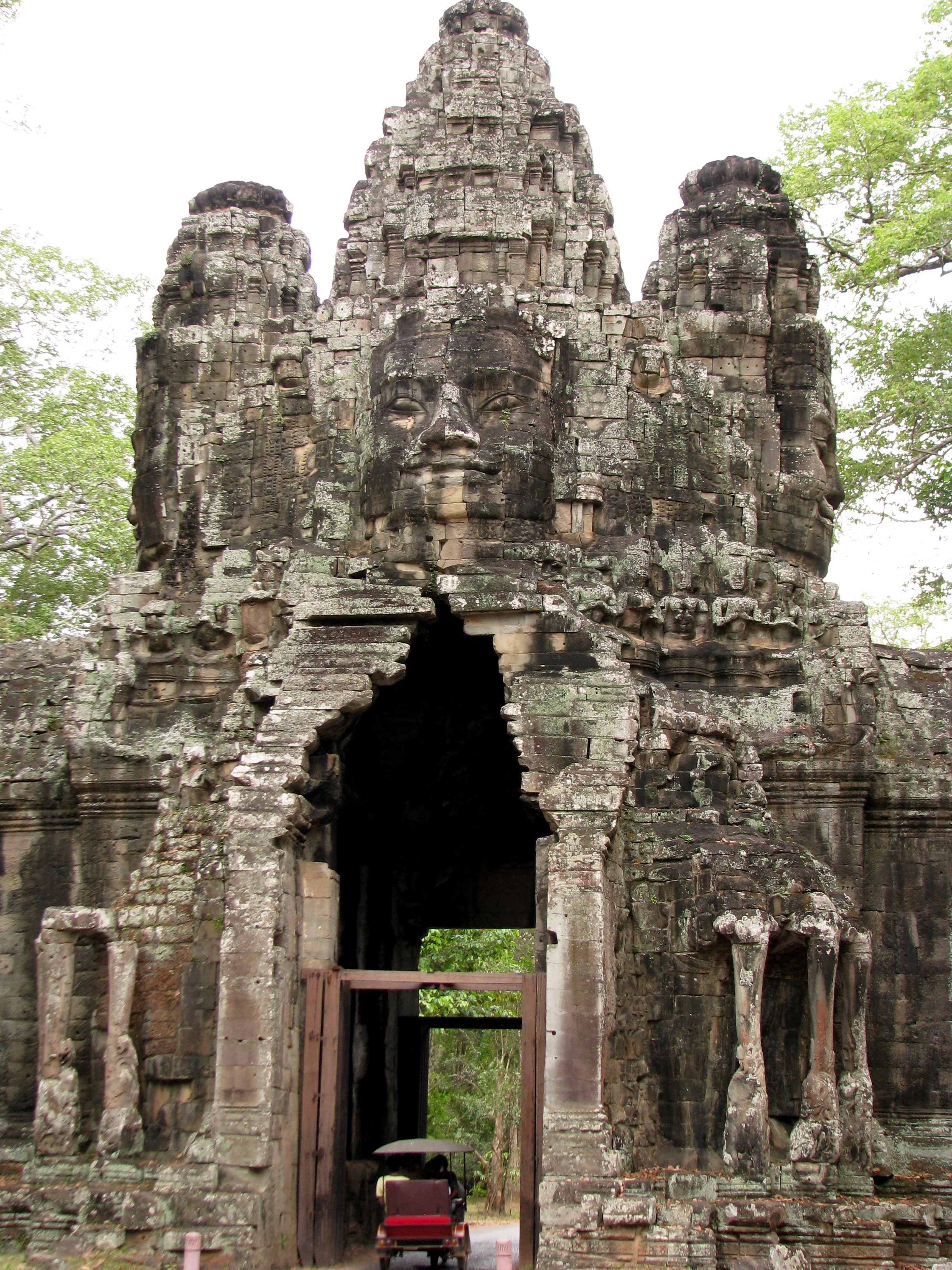 Approaching one of the fantastic gates surrounding the ancient Khmer city of Angkor Thom. Even by tuk-tuk and paved road rather than foot in the old times, it remains a really impressive way to enter the area with the faces looking down on you.